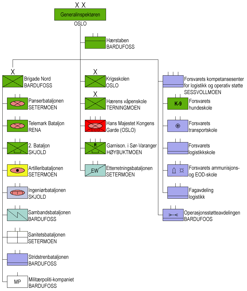 Norwegian Land Forces units and structure 2017